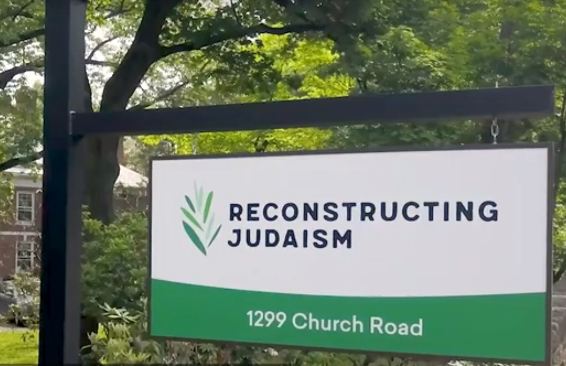 Road sign for Reconstructing Judaism in Wyncote, Penn.